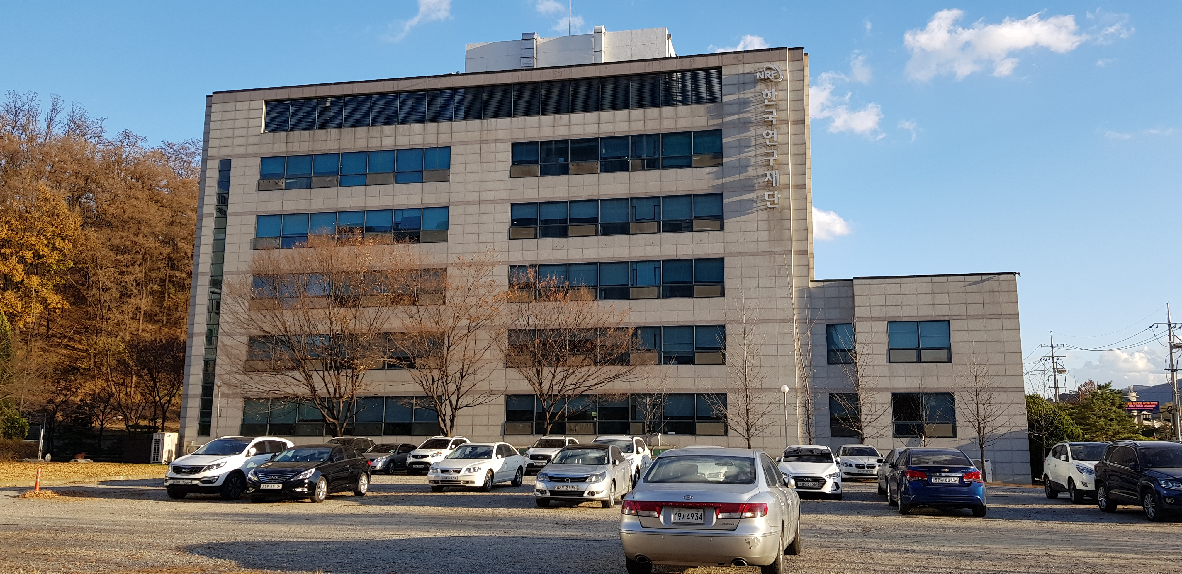 National Research Foundation of Korea Chamoru: 韓國硏究財團